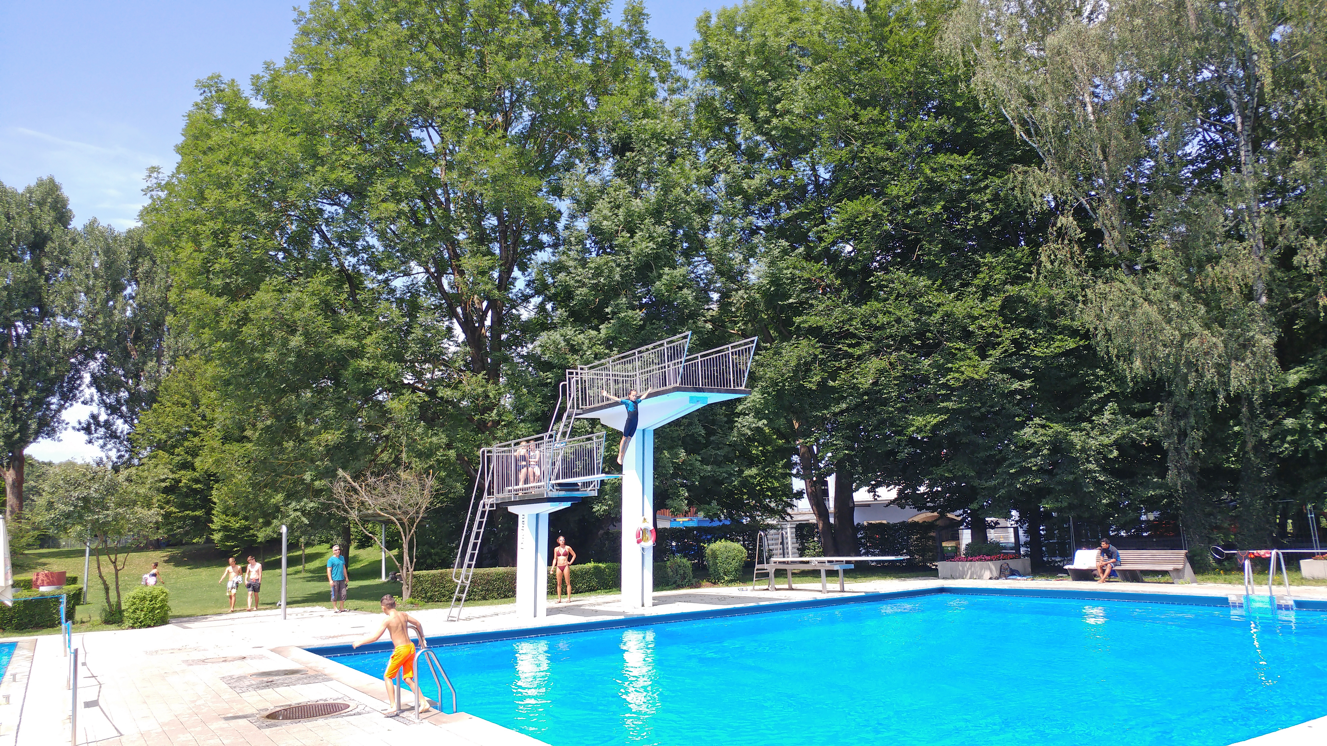 Dachau Family Pool (diving pool)